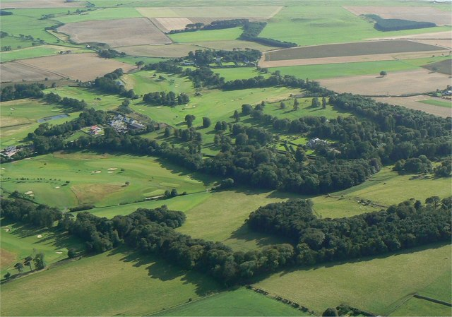 Fairways from aloft Charleton Golf Course from the air. Charleton House mansion is surrounded by trees, right centre, and the gold clubhouse is left centre.